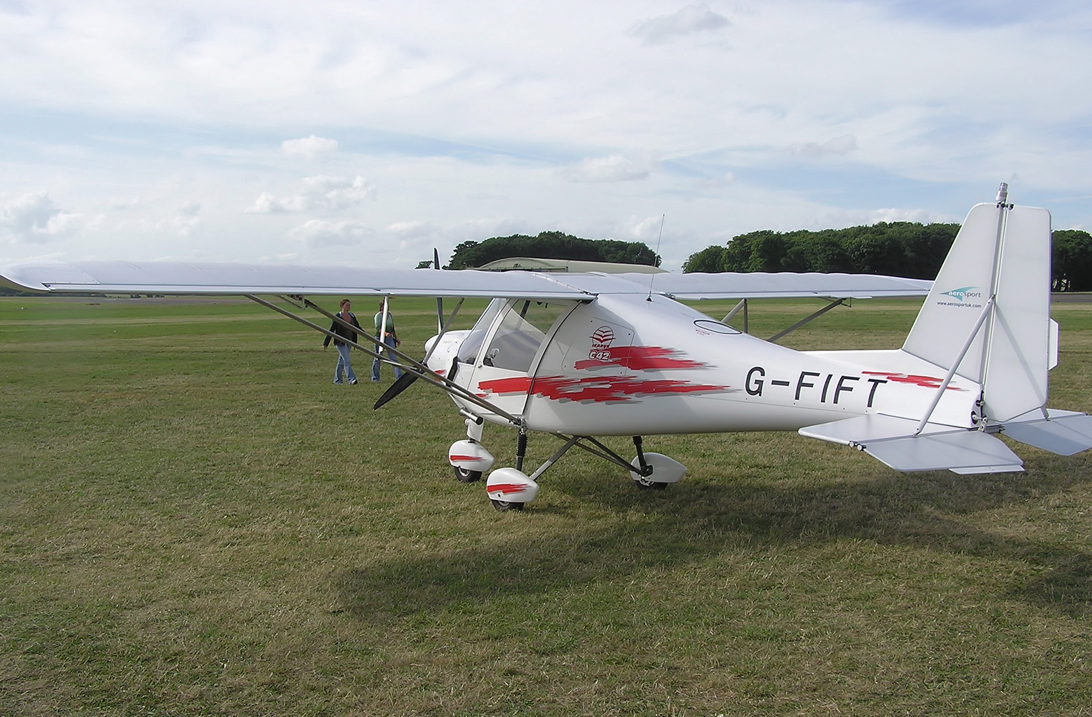 Ikarus C42 FB100 (G-FIFT) at a PFA rally at Kemble Airfield, Gloucestershire, England. Built 2003.